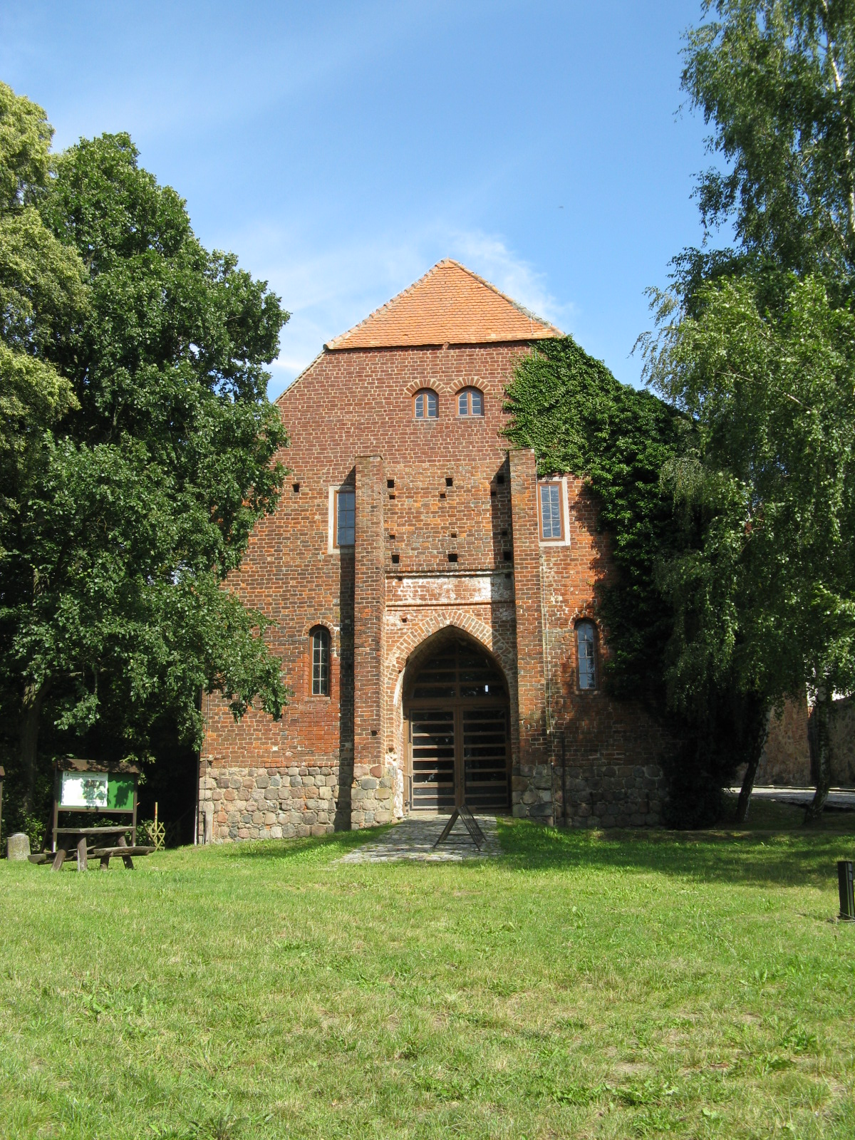 Burg Wredenhagen in Wredenhagen, disctrict Müritz, Mecklenburg-Vorpommern, Germany